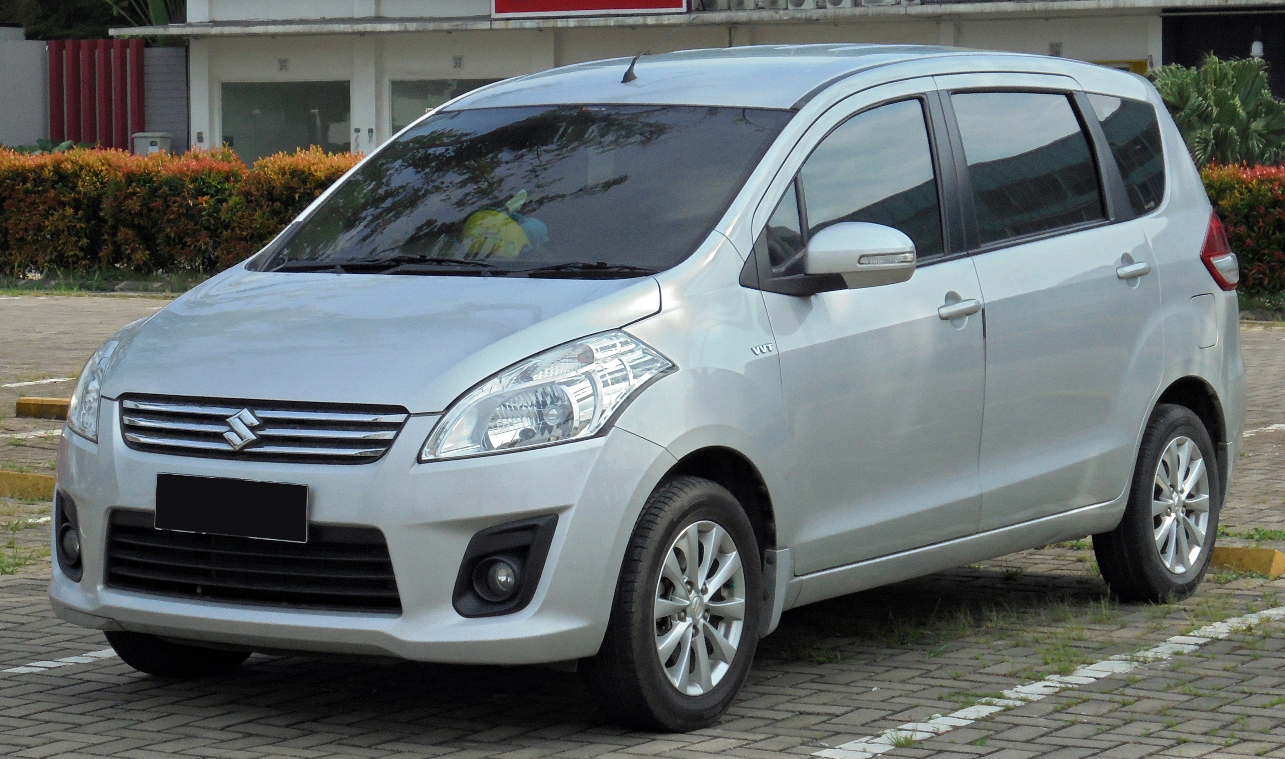 2013 Suzuki Ertiga 1.4 GX wagon (ZE81S) photographed in South Tangerang, Banten, Indonesia.